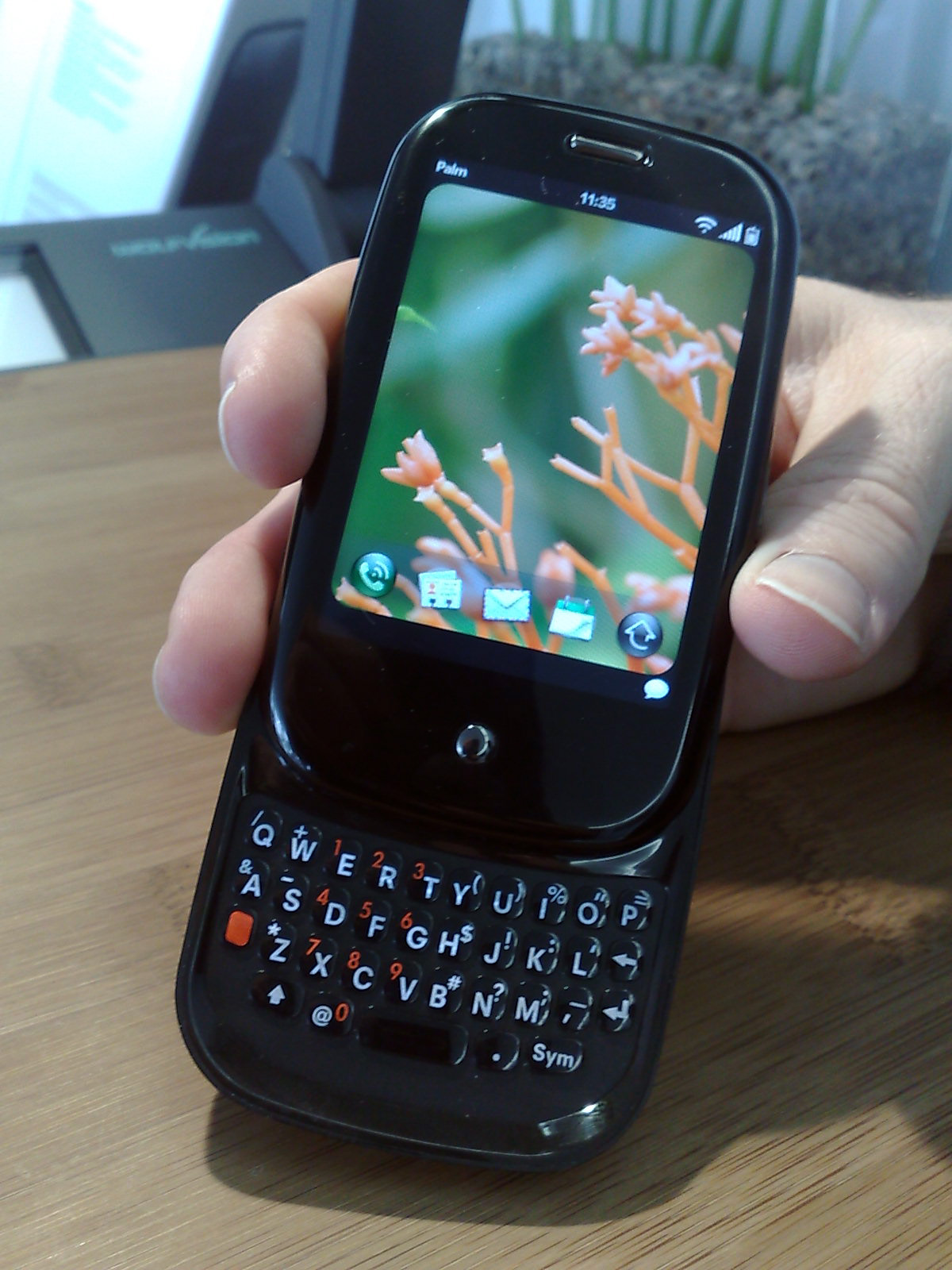 Palm Pre shot from Mobile World Congress.